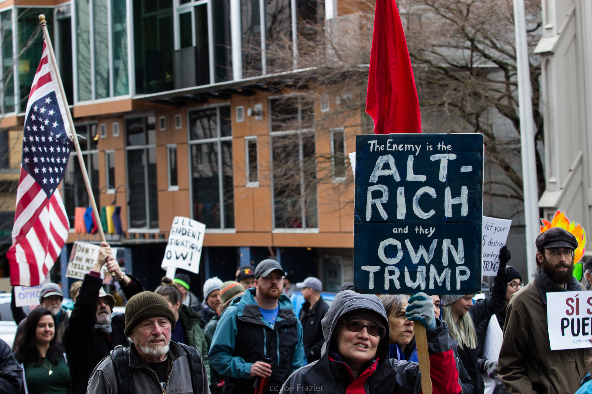 WeThePeople-4610